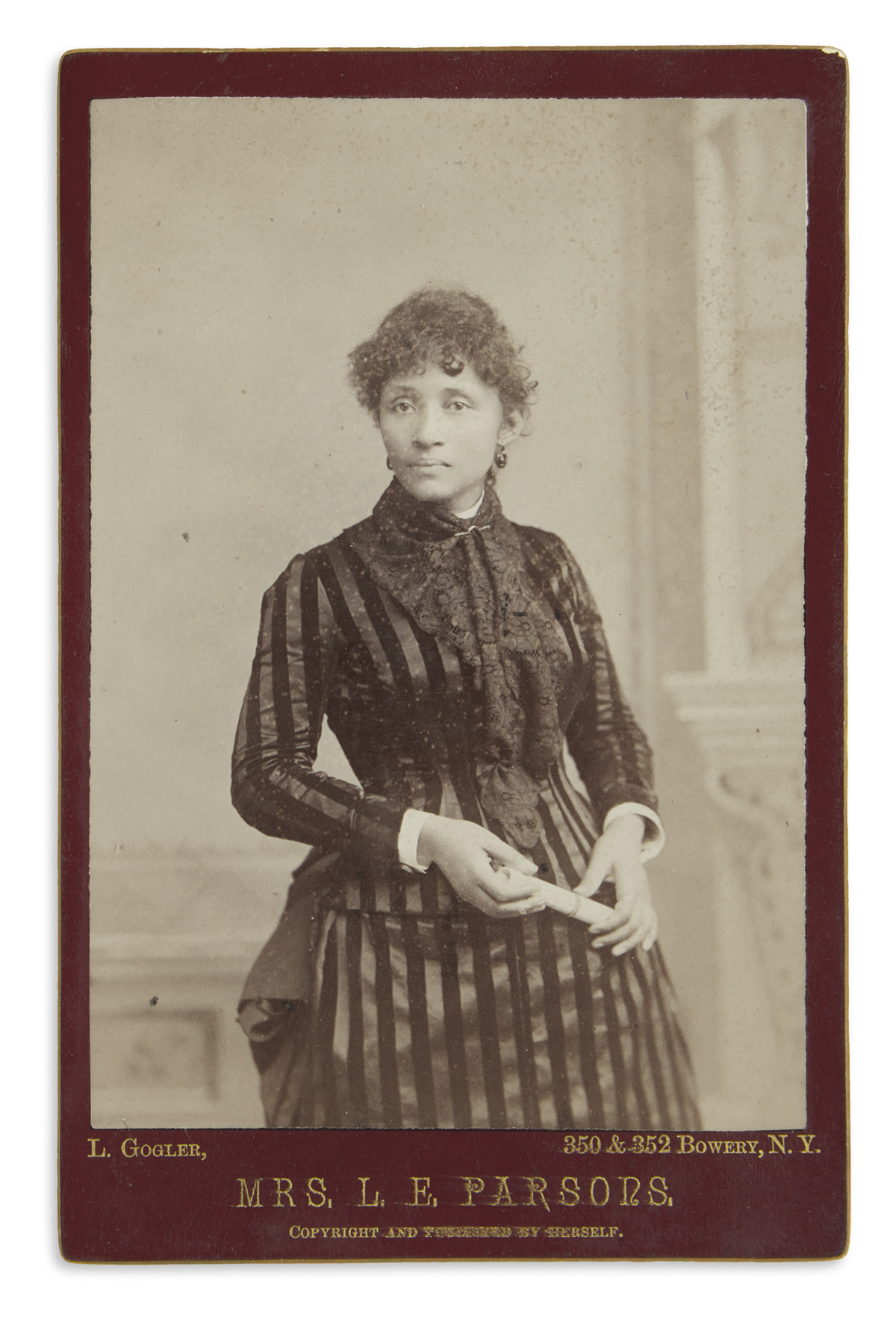 Photo of Lucy Parsons taken in 1886